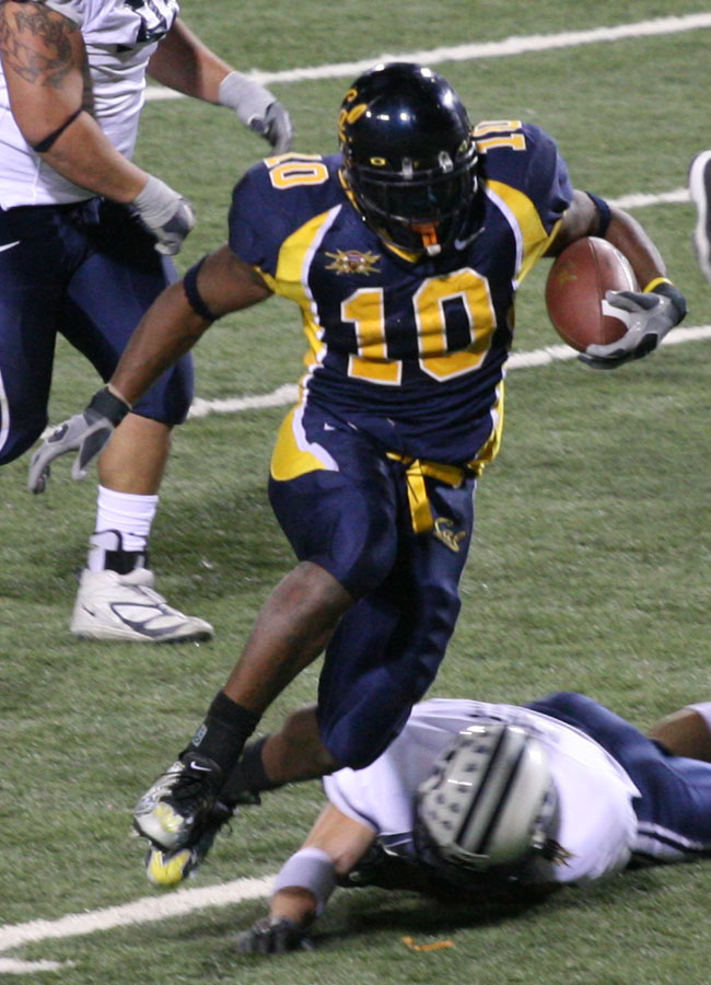 Cal running back Marshawn Lynch at the 2005 Las Vegas Bowl. The Golden Bears defeated the BYU Cougars 35-28. Lynch was the game MVP.